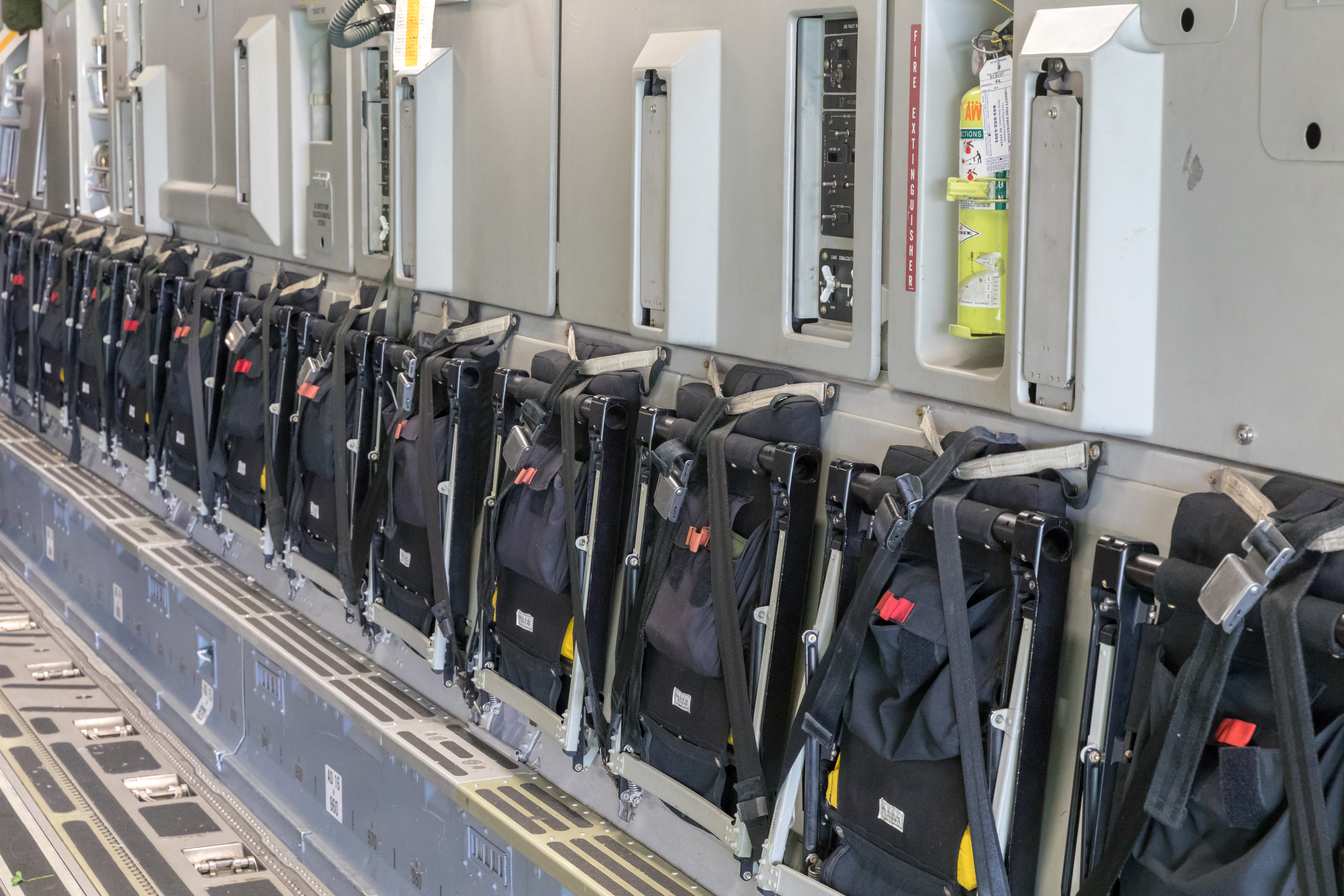 ILA 2018